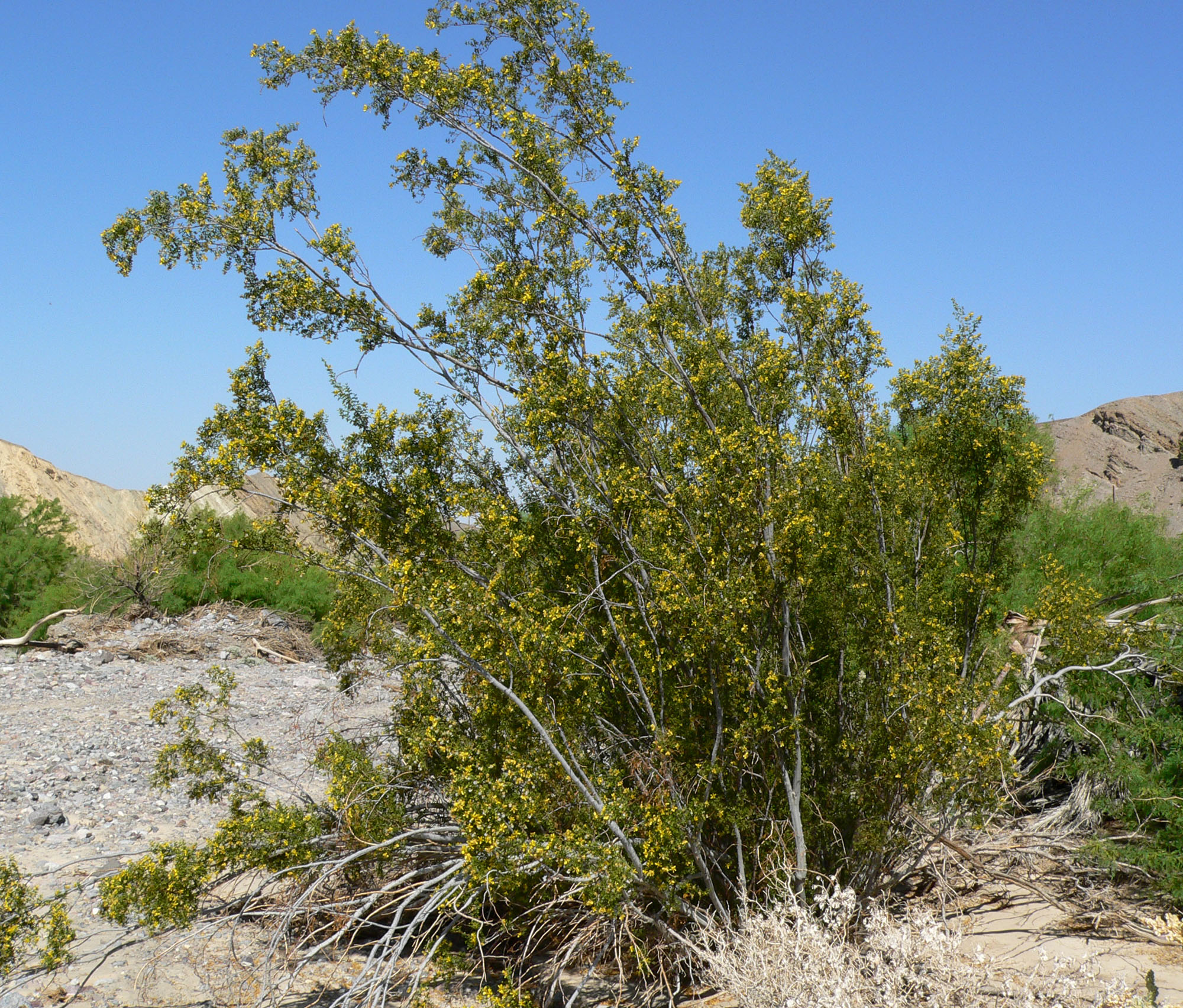 Larrea tridentata in Furnace Creek Wash, Death Valley, California